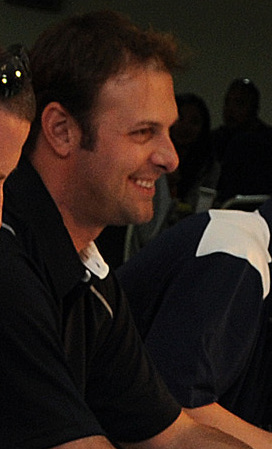 Chris Hammond, former major league baseball pitcher, signs an autograph for U.S. Army Sgt. Ferdinand Guia, from Honolulu, Hawaii, at Camp As Sayliyah, Qatar, March 21. Hammond traveled overseas to show support for the U.S. military in the Middle East with four other former major baseball players: Turk Wendell, Jimmy Anderson, Steve Karsay and Dan Wilson. “This visit is awesome,” said Guia. “It’s like having a piece of home out here. The autographs are for my two sons. I want them to play baseball when they get a little older. Until then, I‘ll put the autographs in their rooms top help motivate them to play.” (Official Army Photo/ Dustin Senger)